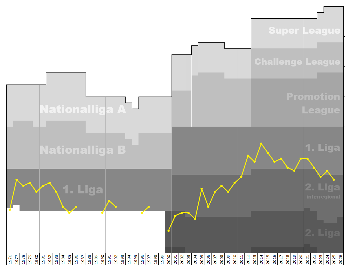 Chart of end-season table positions of FC Balzers in the Swiss football league system. Data source: RSSSF, , football.ch